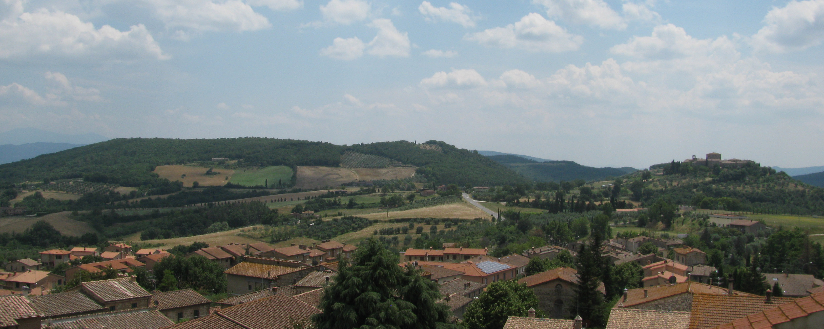 View of (from left to right) Poggio Civitate, Poggio Aguzzo and Murlo from Vescovado di Murlo.